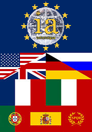 Interlingua logo